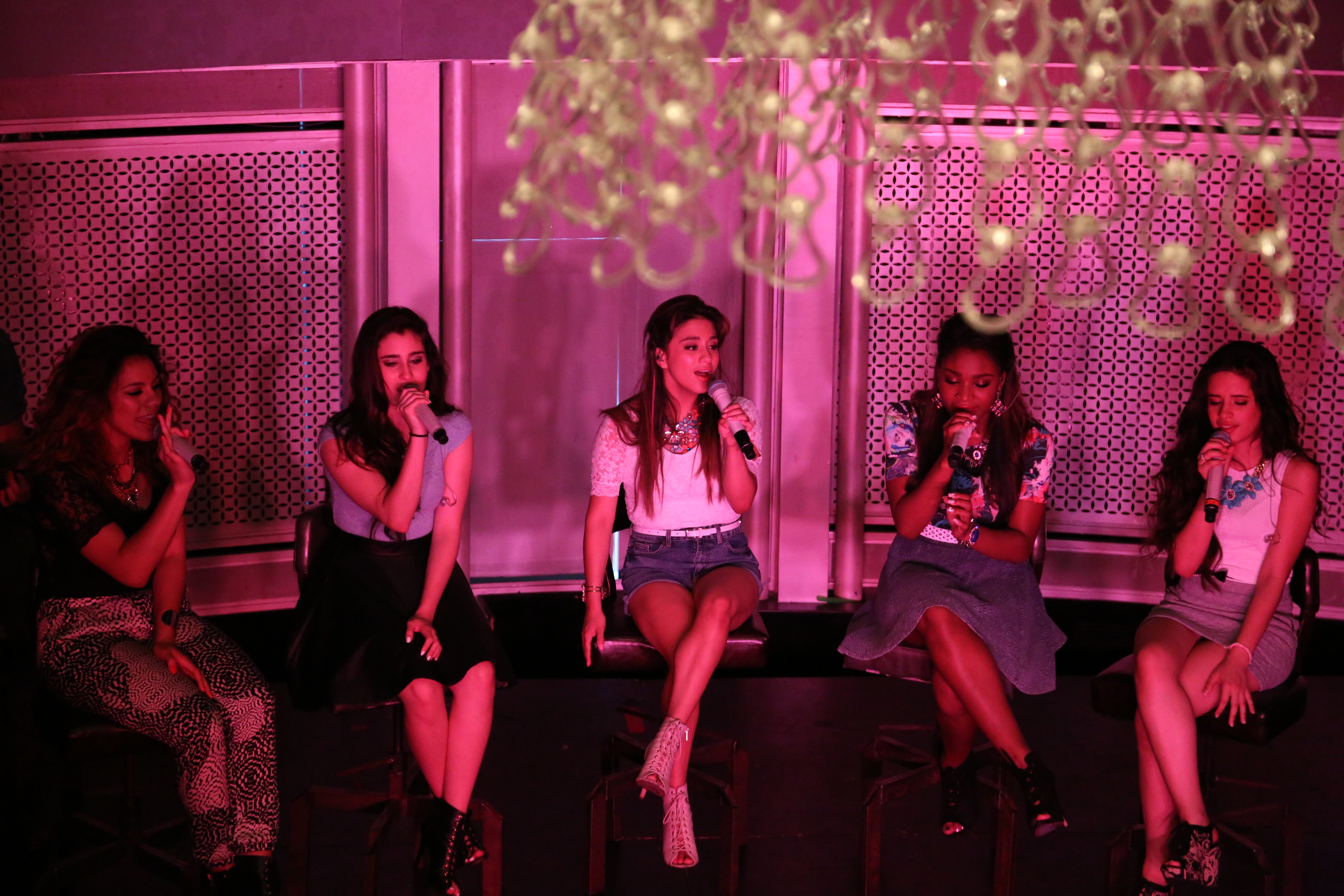 0O3A0411 Fifth Harmony at Hollywood & Highland Center